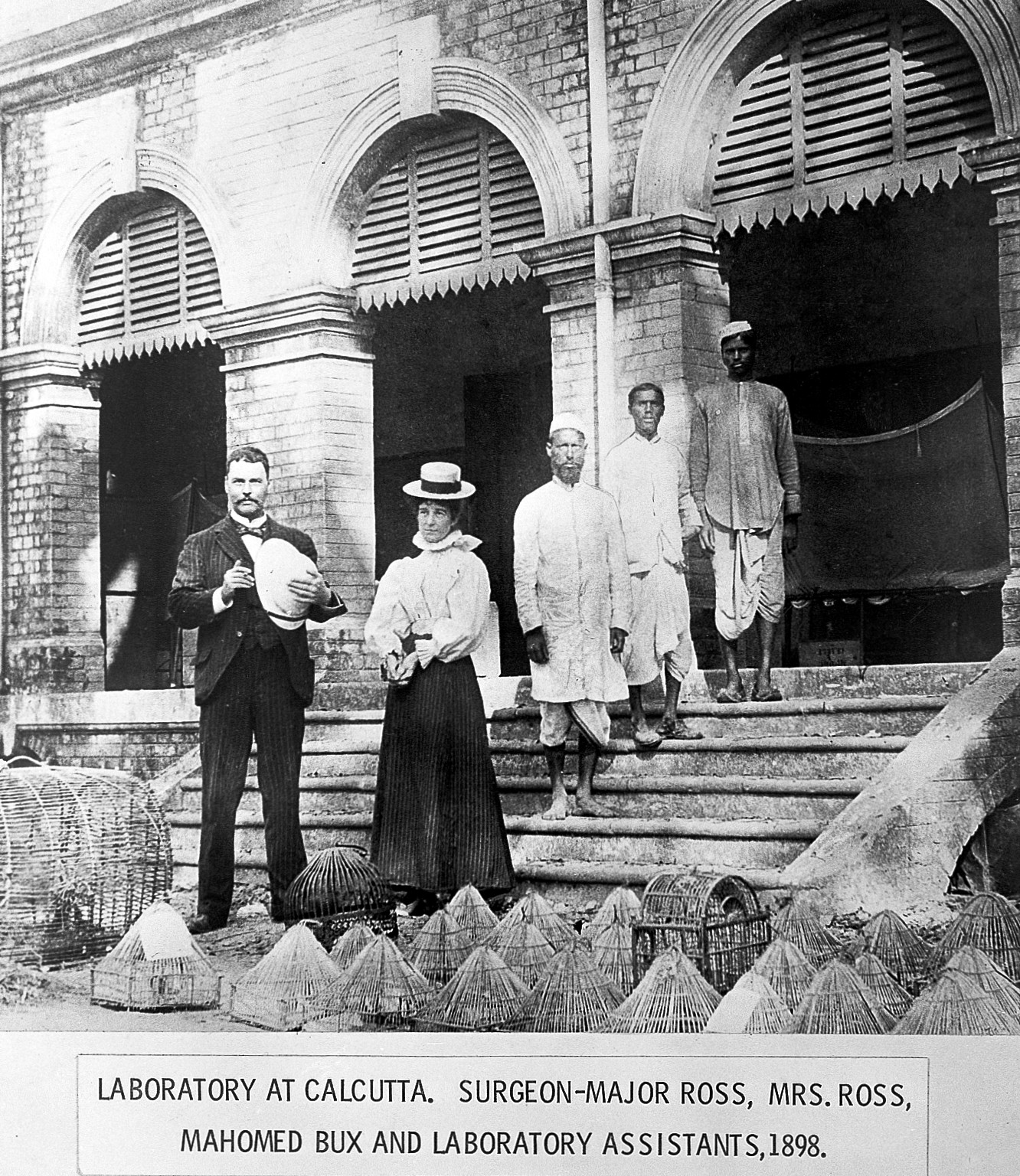 Sir R. Ross on the steps of laboratory in Calcutta, 1898. With Mrs Ross, Mahomed Bux and laboratory assistants in the foreground, cages for malarial birds. Wellcome Images Keywords: India; Malaria; Ronald Ross